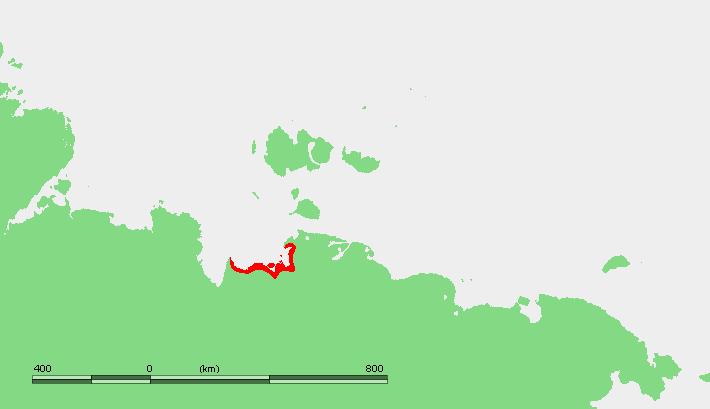 location map